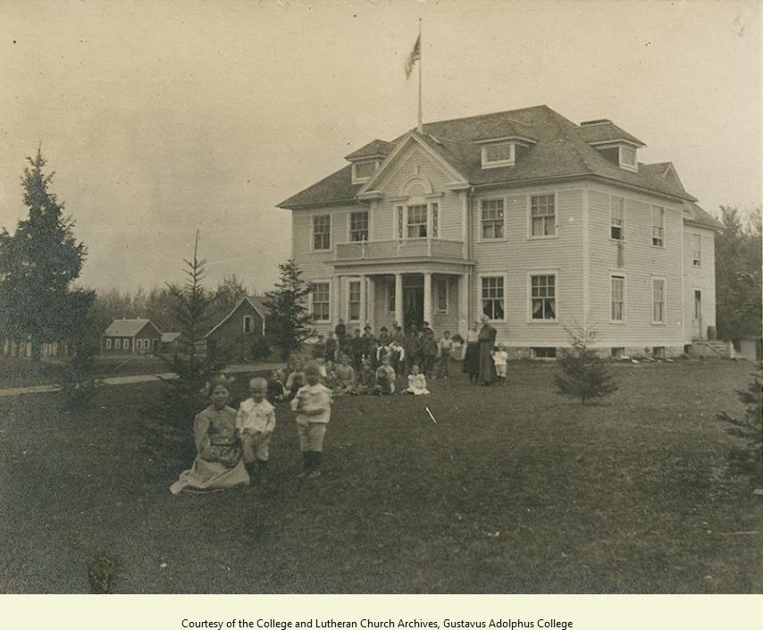 Vasa Children's Home near Red Wing, Minnesota. This is the fourth facility built for the organization.